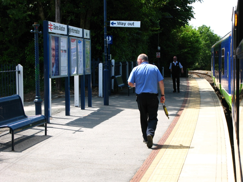 The driver of a train from Plymouth to Gunnislake walks down the platform at bere Alston station in Devon, England, with the staff that controls movement of trains on the Tamar Valley Line. He will use it to unlock the points so that he can reverse the train to continue on its journey.